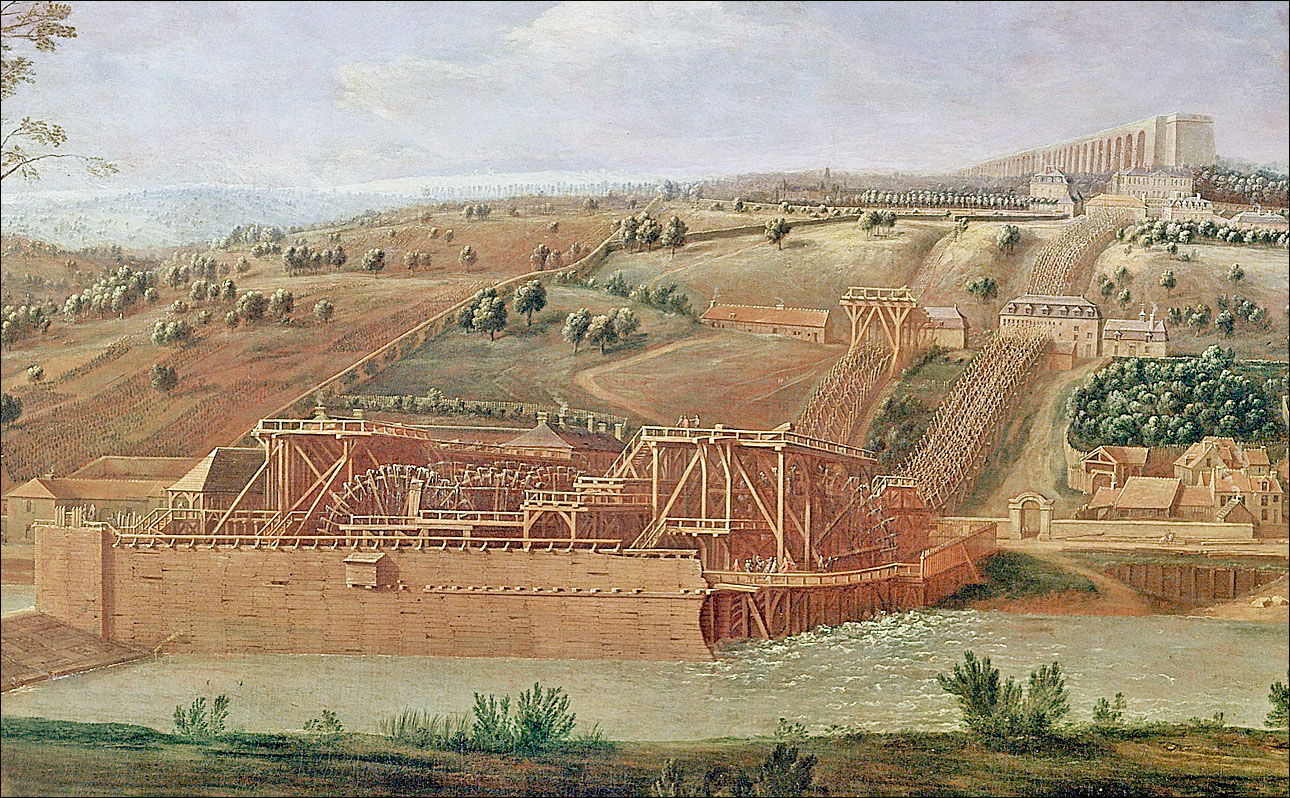 Marly Machines. View of the first Machine.